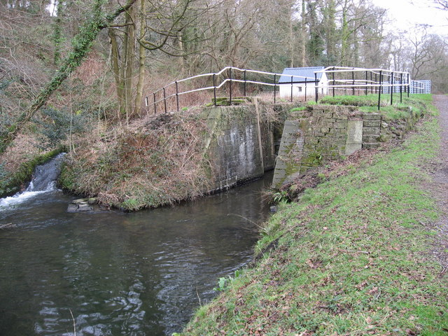 Weir This geograph is marked on the map as a weir but it is a disused lock with restored lock keeper's hut.